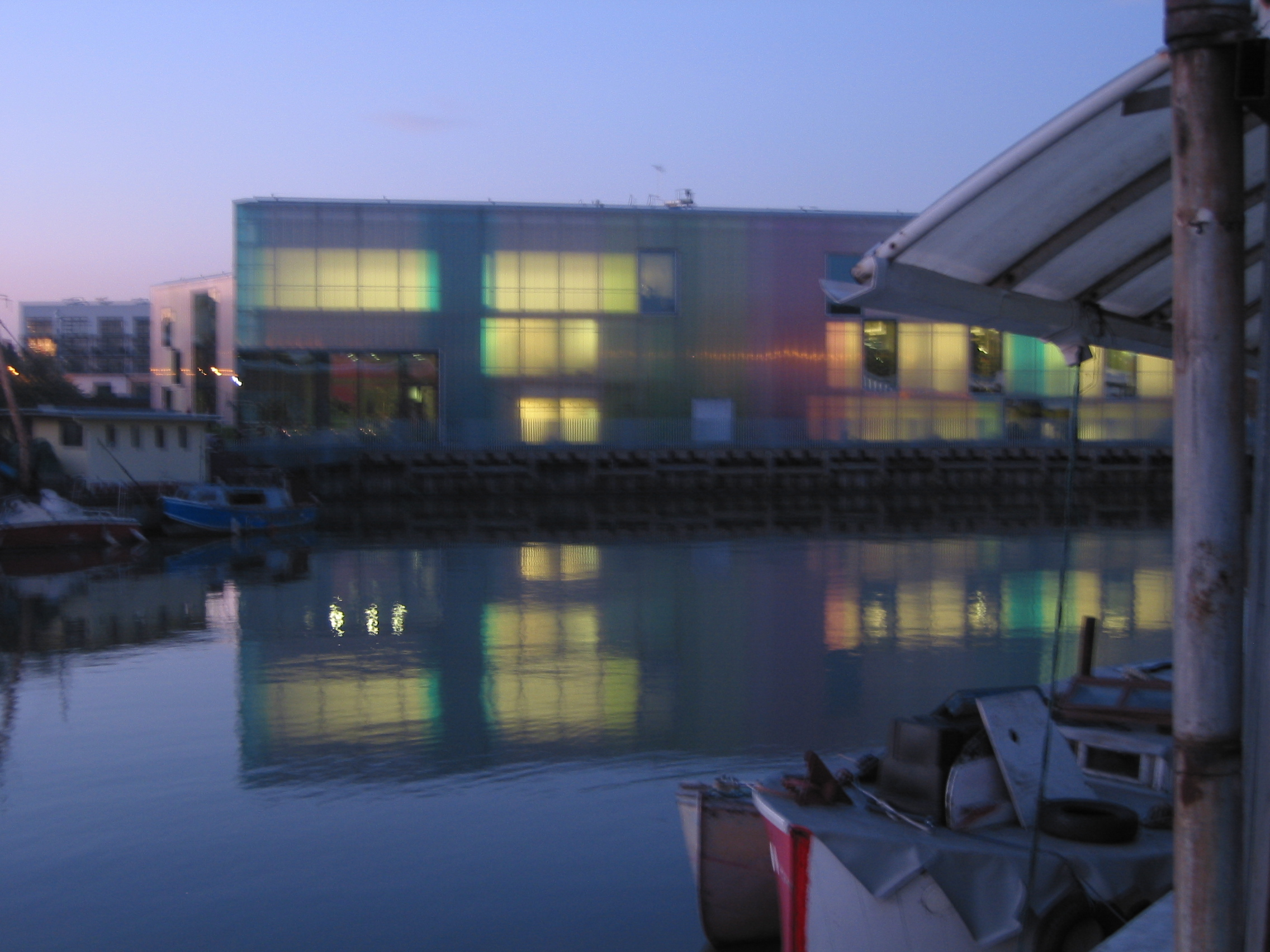 the Laban Centre for the Performing Arts, Creekside, Deptford, London, Englandthe Laban centre from the Mindsweeper boat